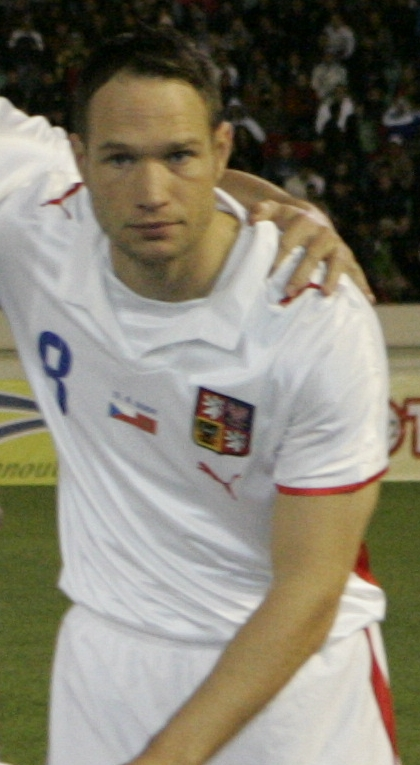 Jan Polák (Czech Republic) before the friendly match against Morocco on February 11, 2009